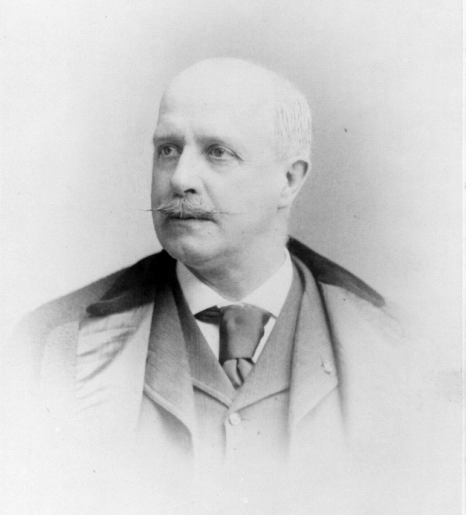 George E. Waring, Jr., American sanitation engineer